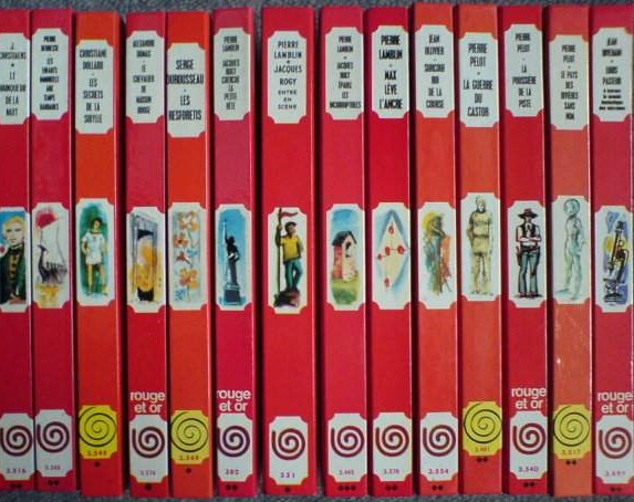 French children's books